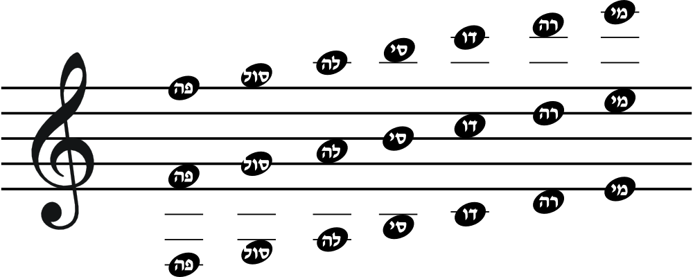 Musical notes in different scales, with Hebrew annotations.